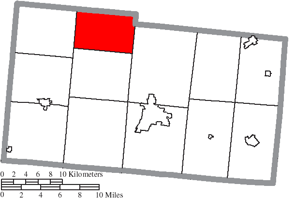 Map of the municipal and township boundaries of Champaign County, Ohio, United States, as of the 2000 census, with the location of Harrison Township highlighted. Township borders are shown only in unincorporated areas in order to differentiate incorporated and unincorporated areas more clearly.